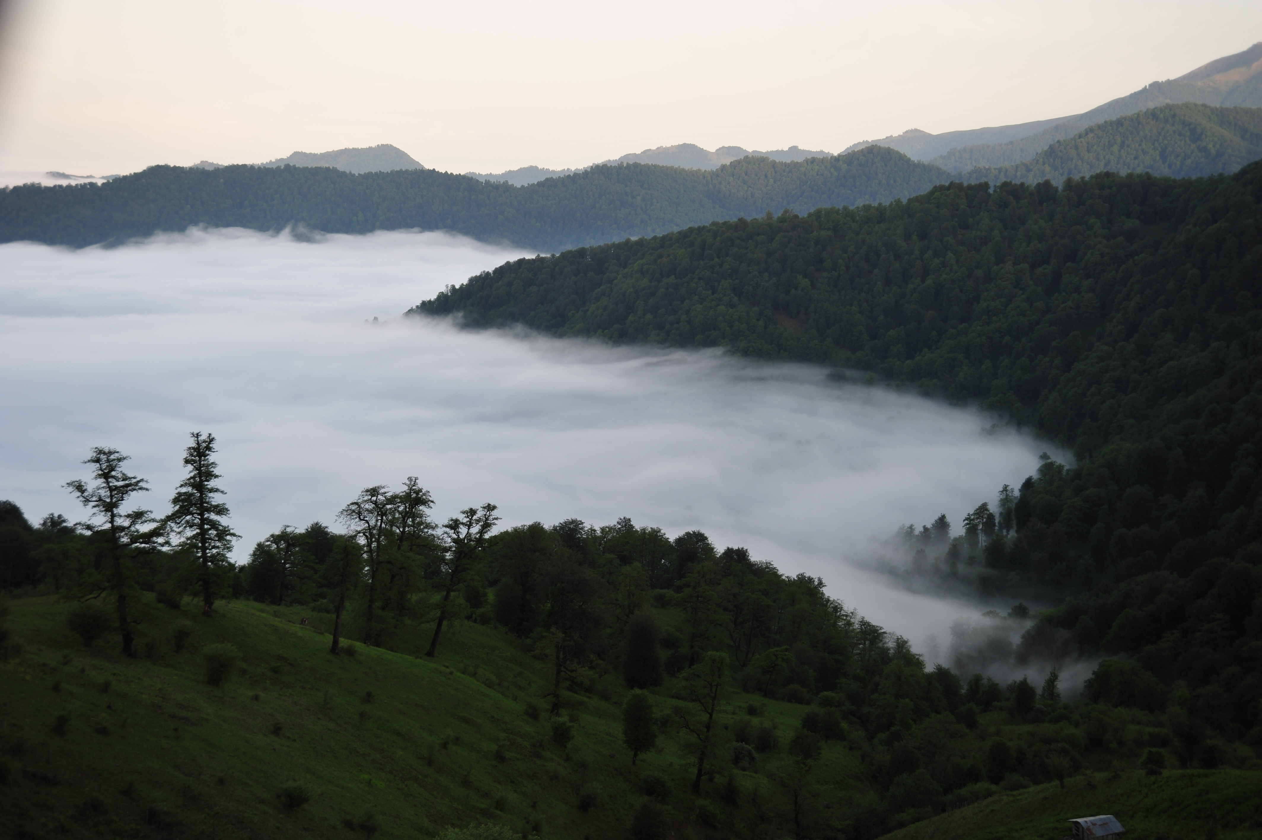 جنگلهای ماکلوان